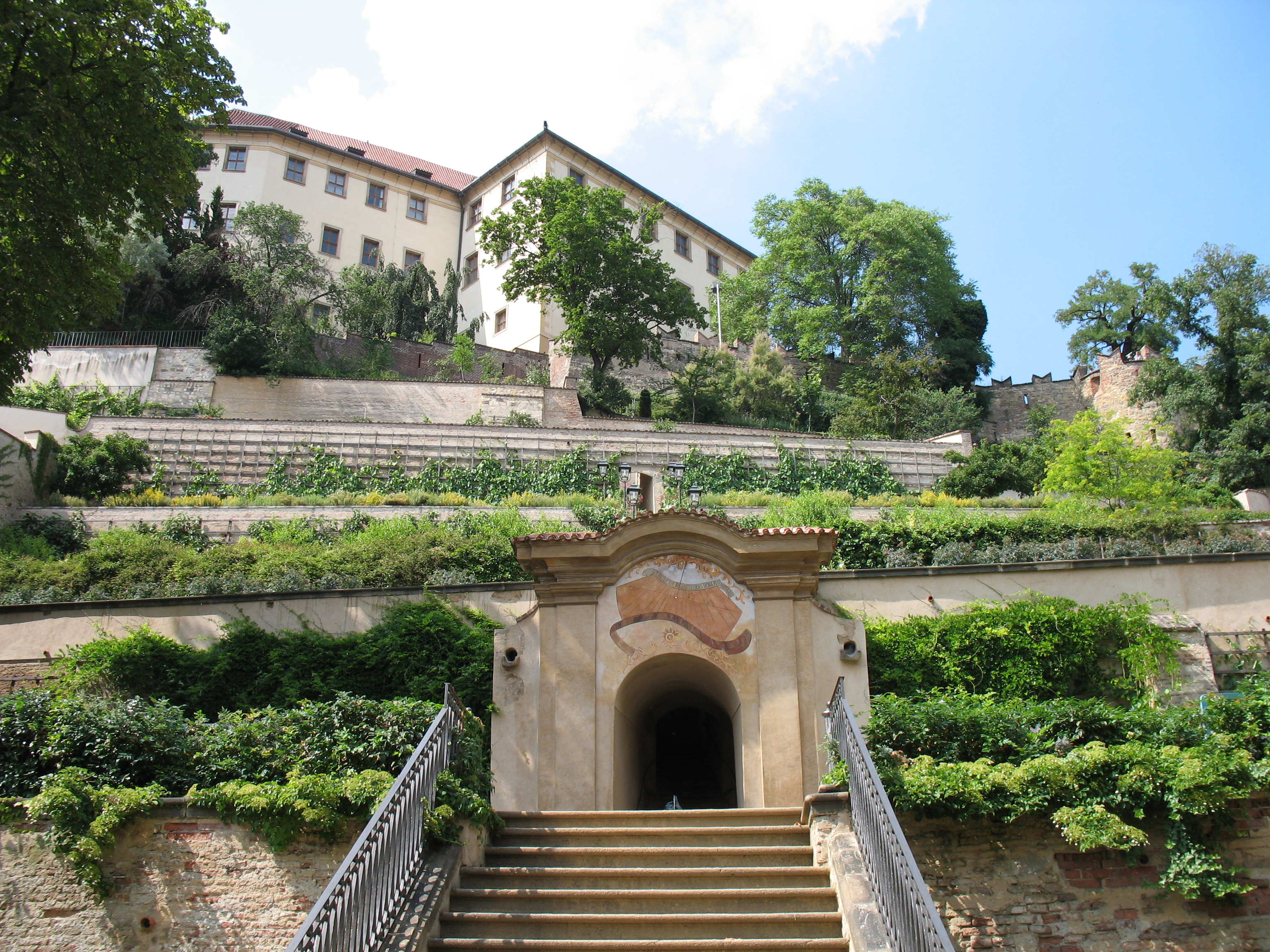 Palffy Palace Garden under the Prague Castle